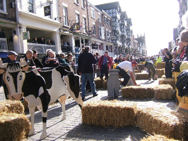 Who will be the Big Cheese? Part of Bridge Street was fenced off, so that the annual Cheese Rolling Competition could take place. Each member of the teams had to roll there cheese over a ramp, through cows legs and around the milk maid at the bottom, before making their way back to the start line.704897